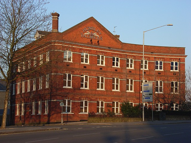 Huntley and Palmers, Reading This is Reading's last reminder of the company that was at one time the world's biggest biscuit manufacturer. J. Huntley and Son was founded in 1822 by Joseph Huntley and operated from premises in London Street. George Palmer became a business partner in 1841 and the company was renamed in 1857. They moved to this site on King's Road in 1846, continued to grow and pioneered the mechanisation of biscuit manufacture in the second half of the century. The twentieth century was not so rosy. The company suffered from labour shortages, two world wars and a lack of innovation. In 1955 a factory was opened in Liverpool to cope with the labour shortages. In 1969 the company became part of Associated Biscuits Ltd, but by then profits were in decline. The Reading site was thought too cramped for modernisation and its closure was announced in 1972. Production ceased in 1976. The building pictured was originally the company's office block, but later became its recreation club. Today it has been converted into flats. Reading's former industries are known as the three Bs - biscuits, beer and bulbs. Beer is the only one that survives today, Simonds Brewery having been taken over by Courage (Scottish and Newcastle today). Bulbs is a tenuous reference to Sutton Seeds. Confusingly there is a fourth B in the form of bricks. One of the Reading FC's nicknames was the Biscuitmen (or boys). It's not used these days, though it does live on in the name of a fanzine, "Hobnob, anyone?".